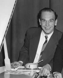 Charlie Norman in Dagens Revy Falun 19 February 1954.